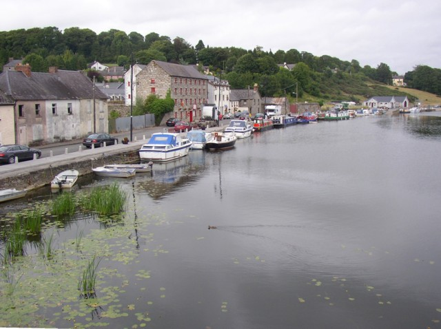 The riverside from the bridge, Graiguenamanagh, Co. Kilkenny. The tall warehouse is a reminder of the former importance of the Barrow Navigation.